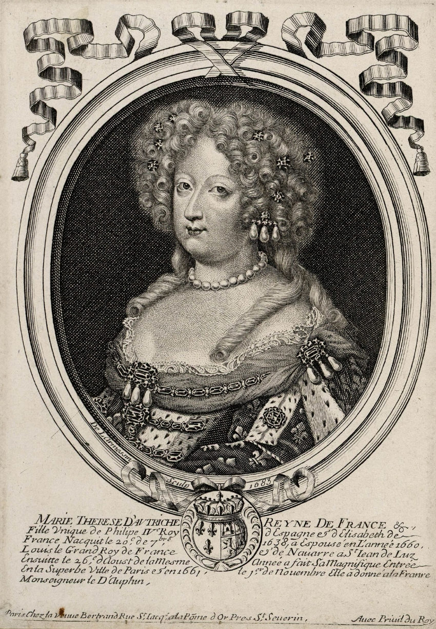 Marie Thérèse of Austria in 1683, Queen of France and Navarre